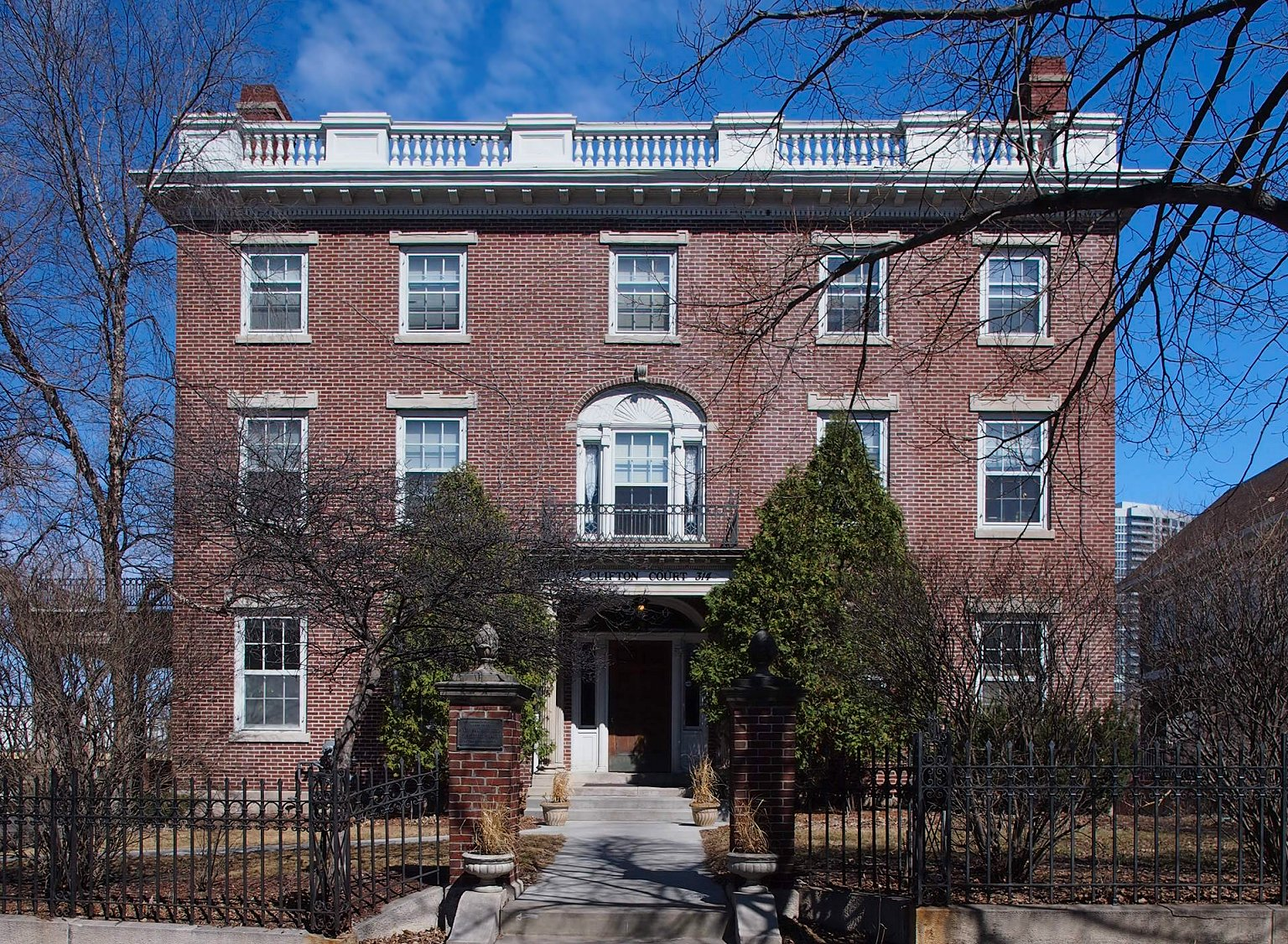 Elbert L. Carpenter House, 314 Clifton Ave, Minneapolis, Minnesota, USA. Viewed from the south-southwest.